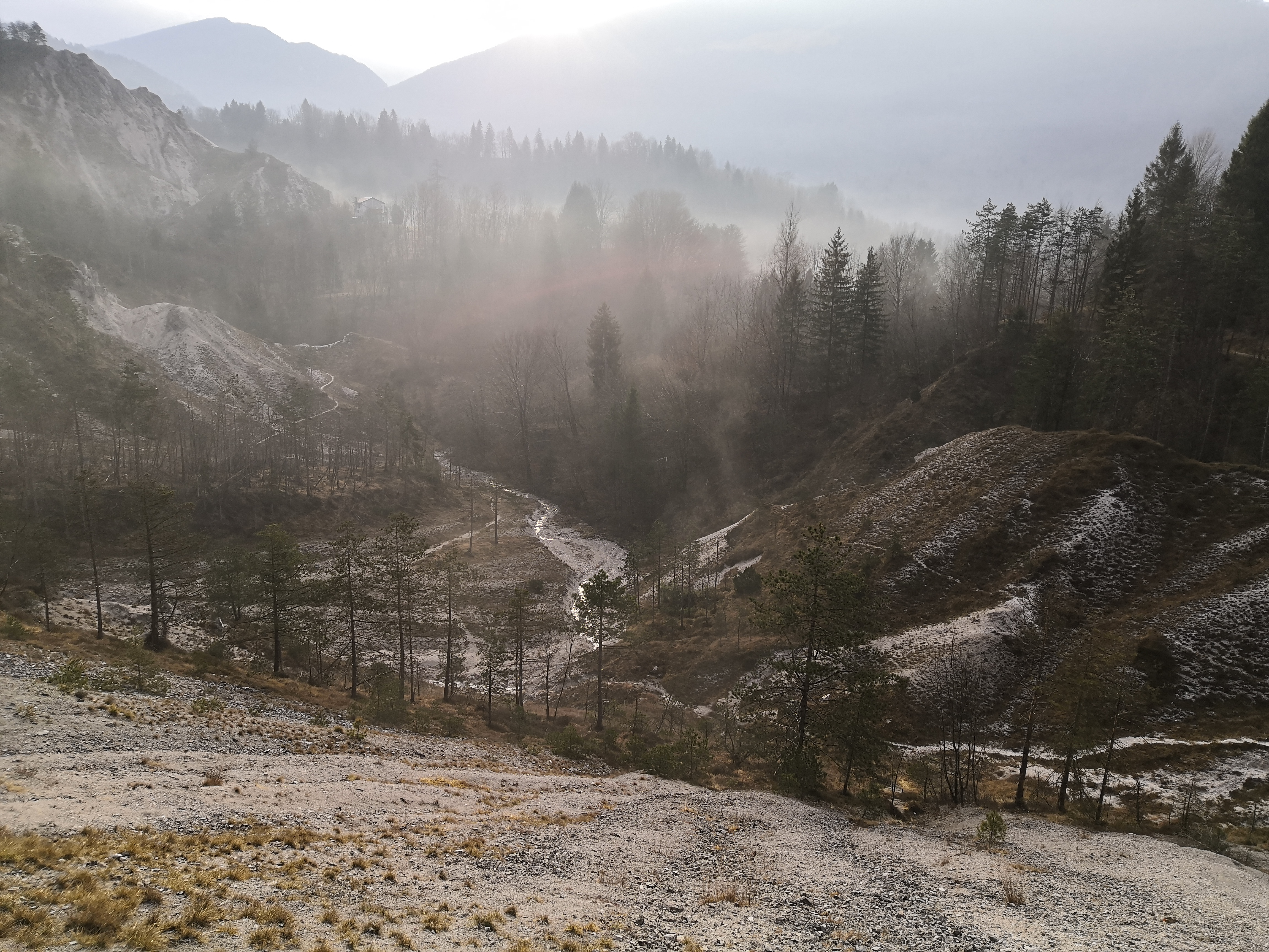 January landscape along the Mt. Ciavac nature trail, near Andreis.